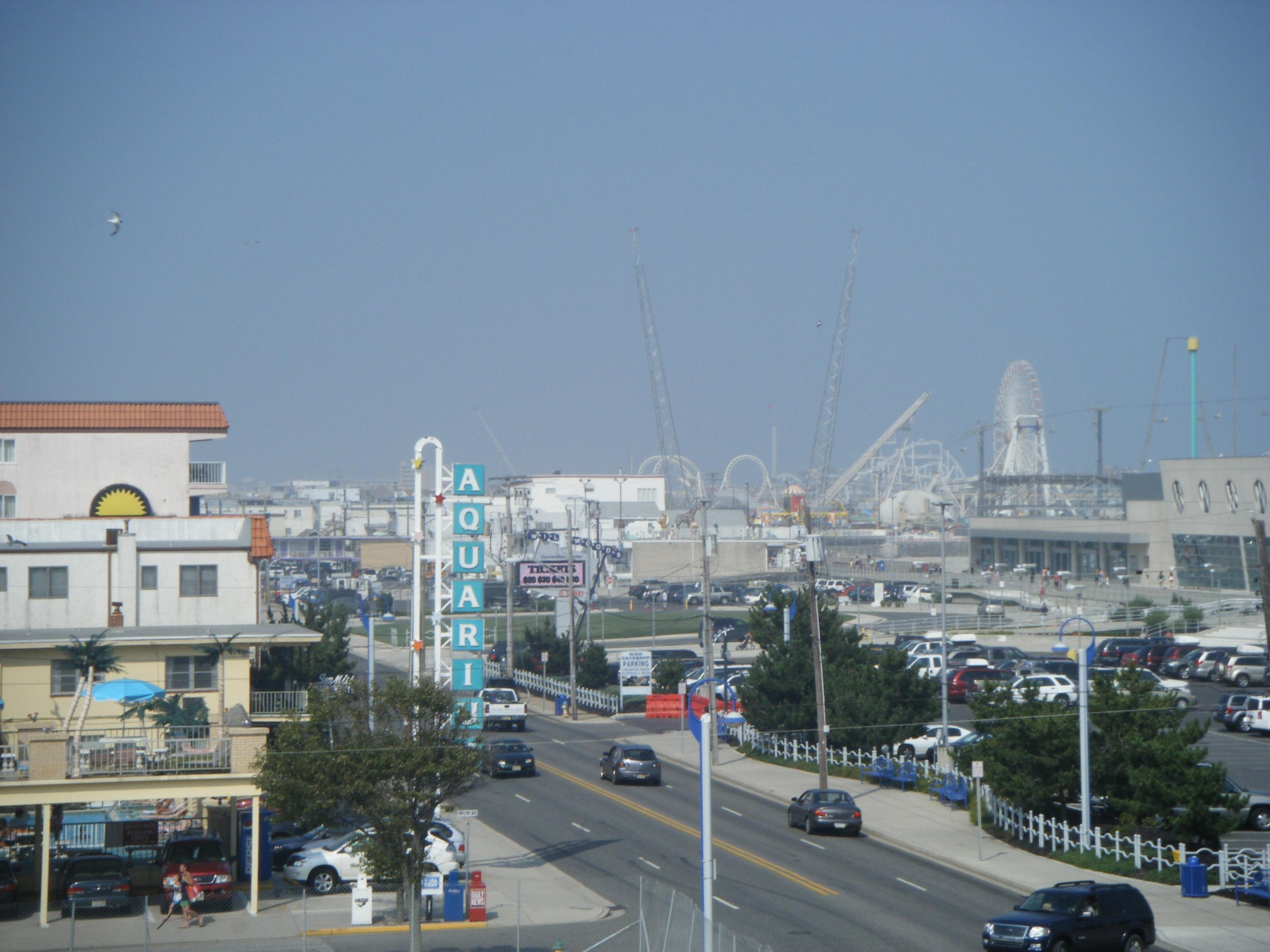 A view of Wildwood, New Jersey looking north